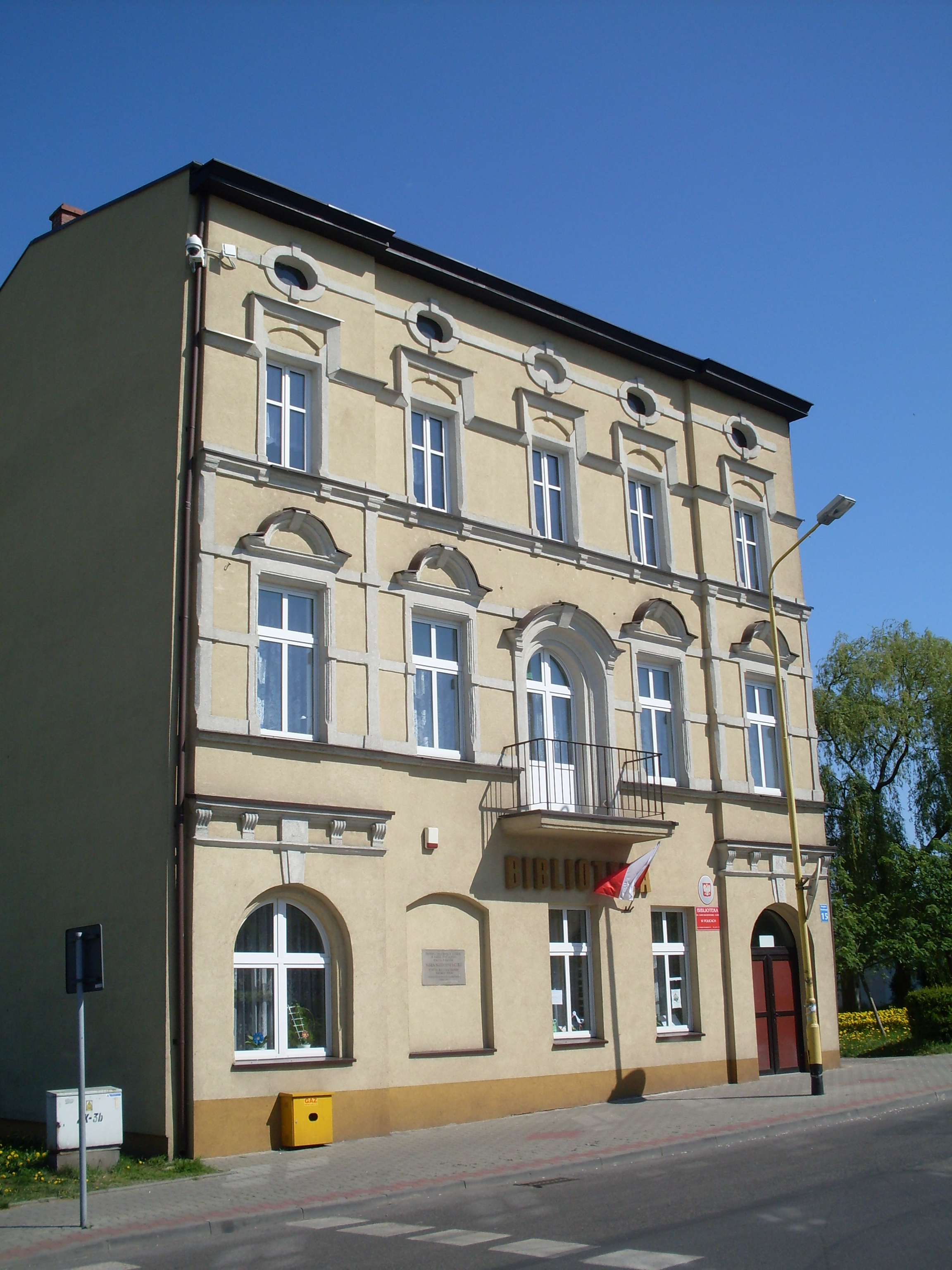 The Public Library of Police County in Police, a town in Pomerania, Poland